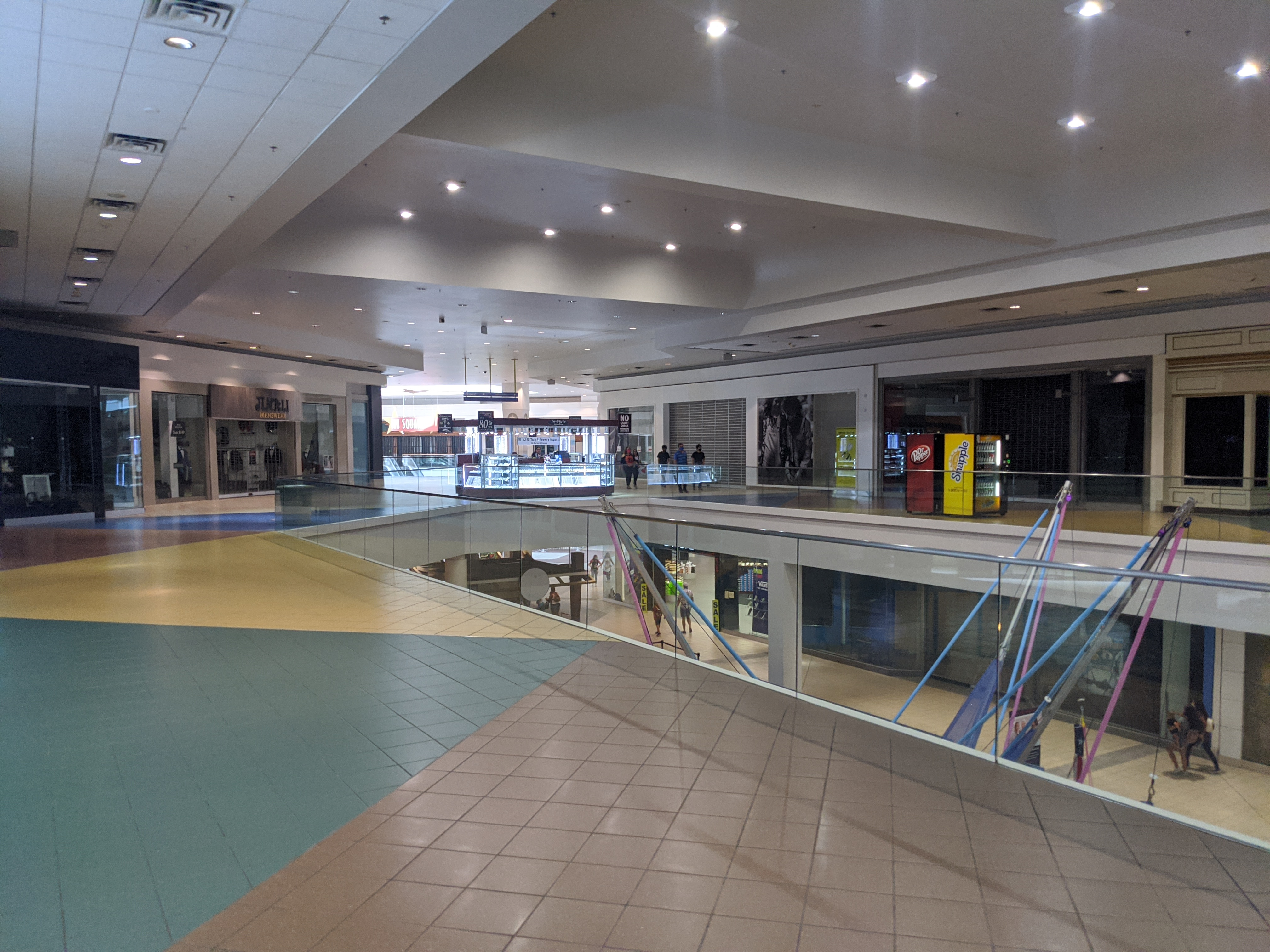 Central court of ridgmar mall